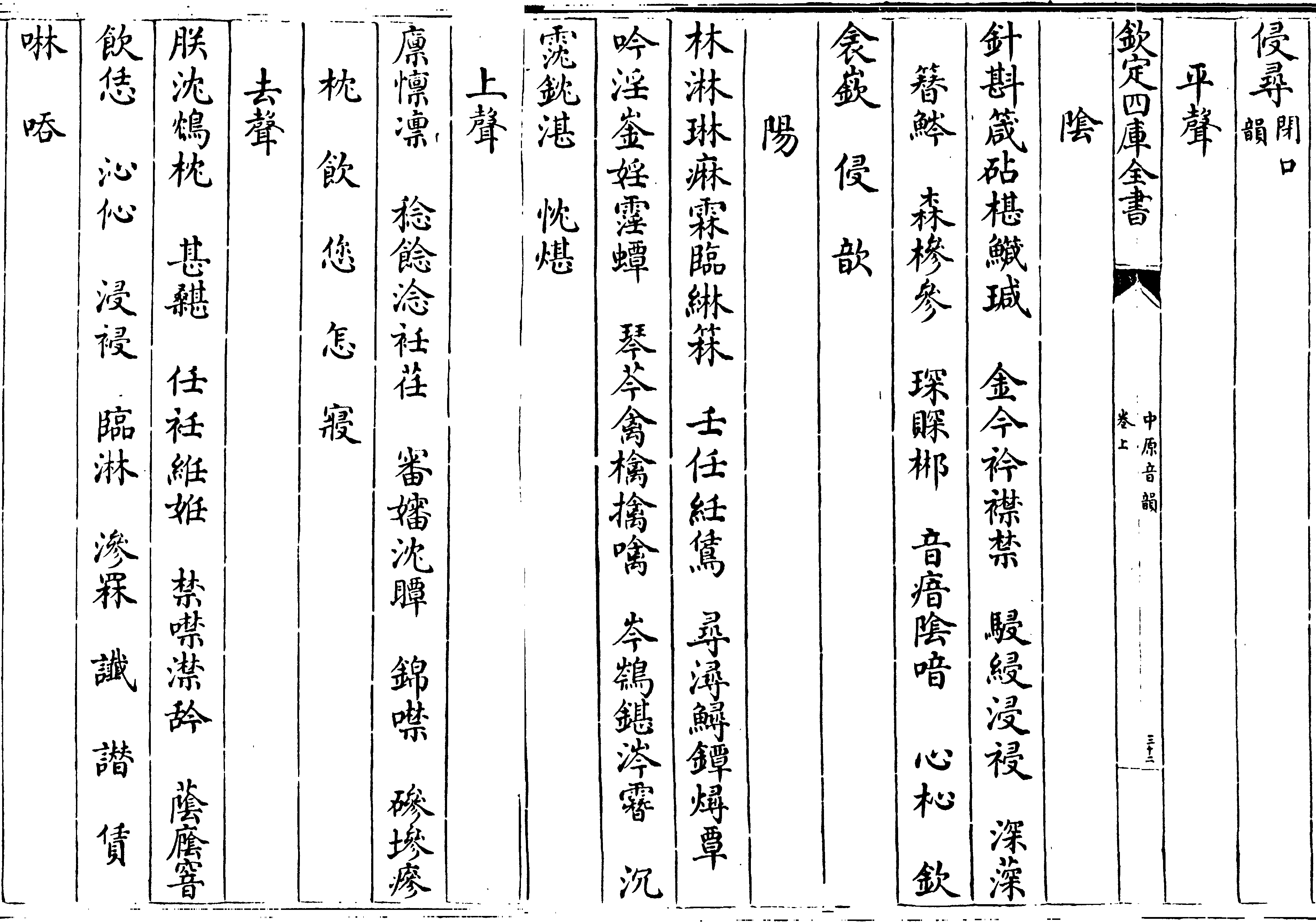 The rhyme group 侵尋 qīn-xún (-im, -əm) of the Zhongyuan Yinyun 中原音韵/中原音韻, an Old Mandarin pronunciation guide written by Zhou Deqing (周德清) in 1324. The rhyme group is subdivided by tone (reading from right to left): level tone (平聲 píngshēng) split into 陰 yīn and 陽 yáng, rising tone (上聲 shǎngshēng) and departing tone (去聲 qùshēng). Words within each tone are placed in homophone groups.